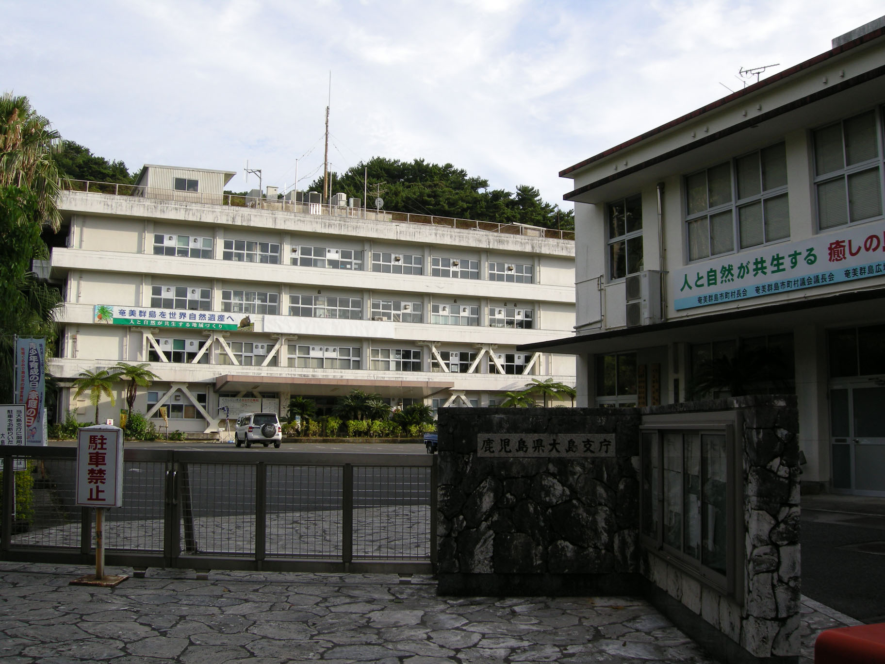 Ohshima subprefectural office, Amami, Kagoshima, Japan